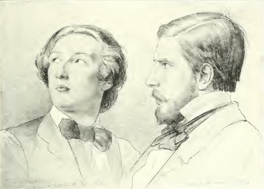 Portrait of the English painter Frederic Leighton (1830-1896) and the Italian painter Enrico Gamba (1831-1883)